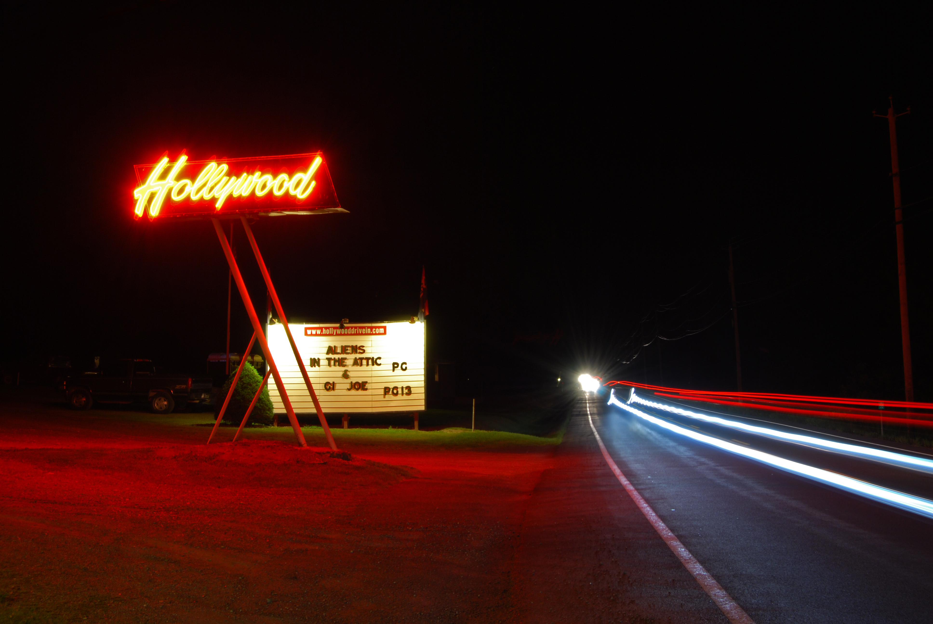 Hollywood Drive In on Route 66 in Averill Park, New York, United States